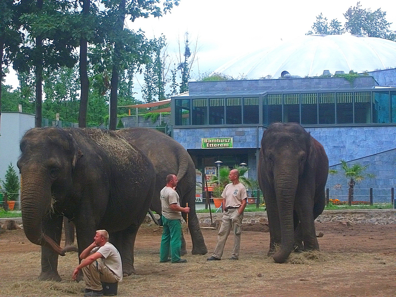 Asian elephant (Elephas maximus) in Nyíregyháza Zoo.